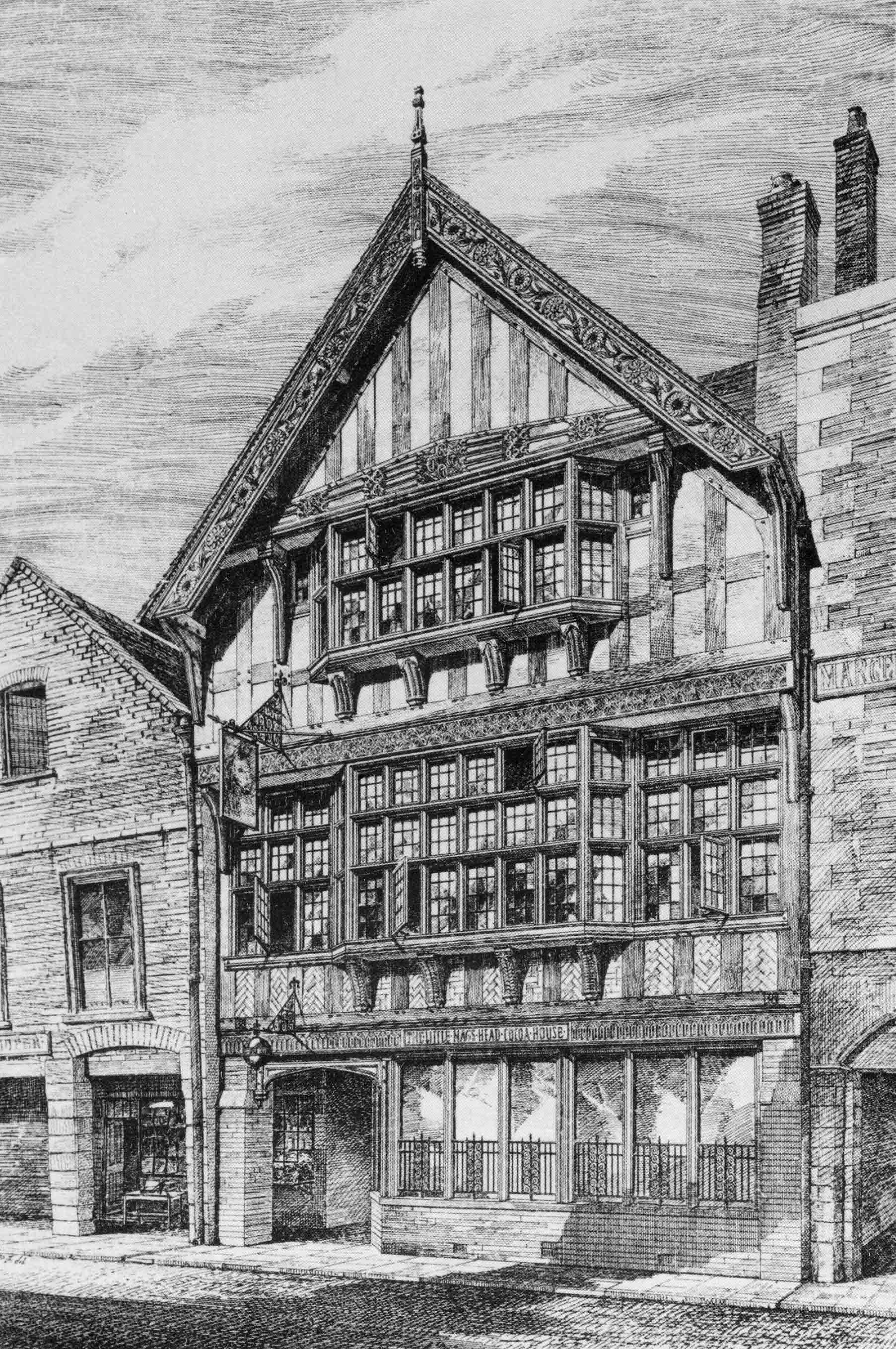 Scanned by the book by me. Drawing of the Little Nag's Cocoa House, Chester in 1877 taken from Building News, 33, 1877, p. 508